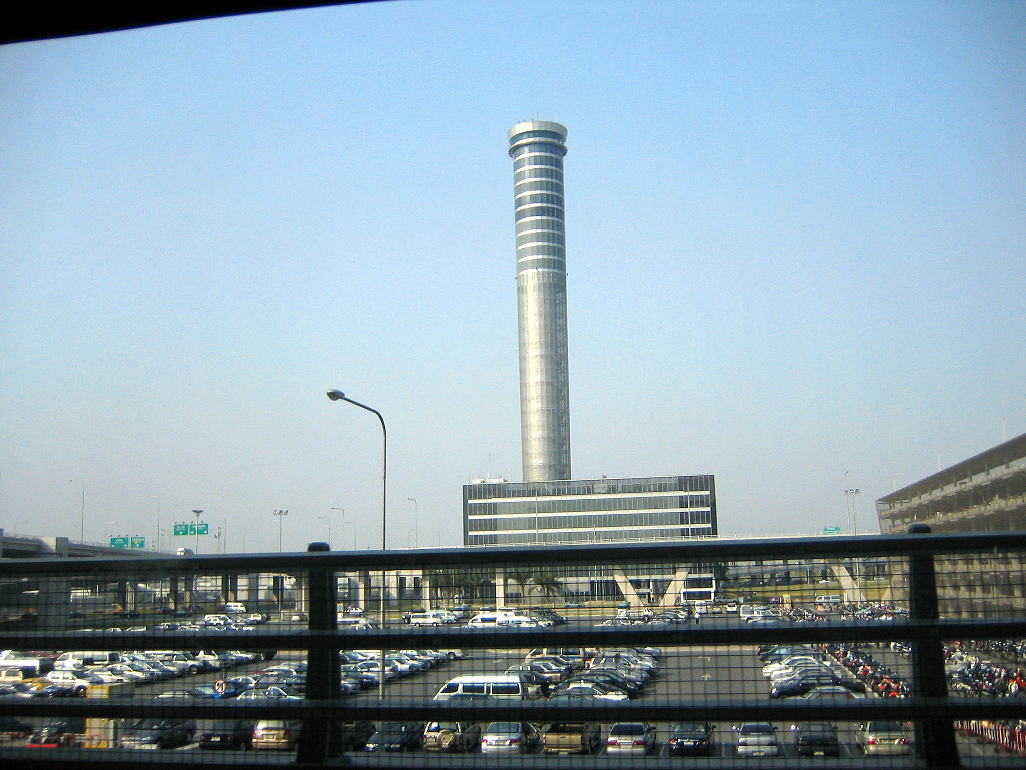 Suvarnabhumi Airport Bangkok Thailand. Air Control Tower.